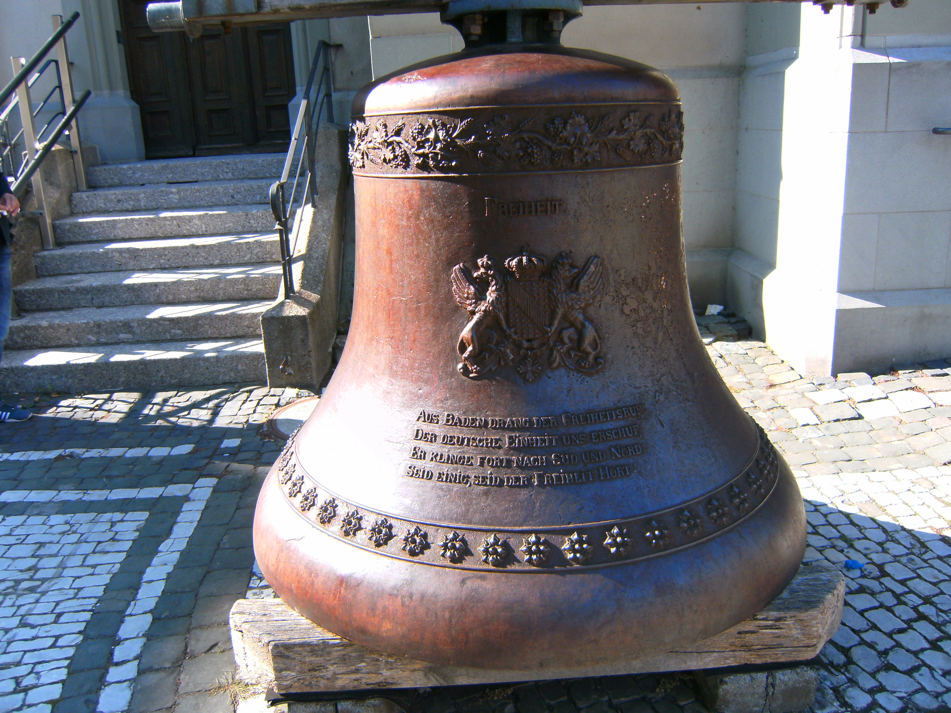 Lutherkirche Konstanz (Luther Church Konstanz): Bell Friedrich I, Grand Duke of Baden/view on Deutsche Einheit. Freiheitsglocke.